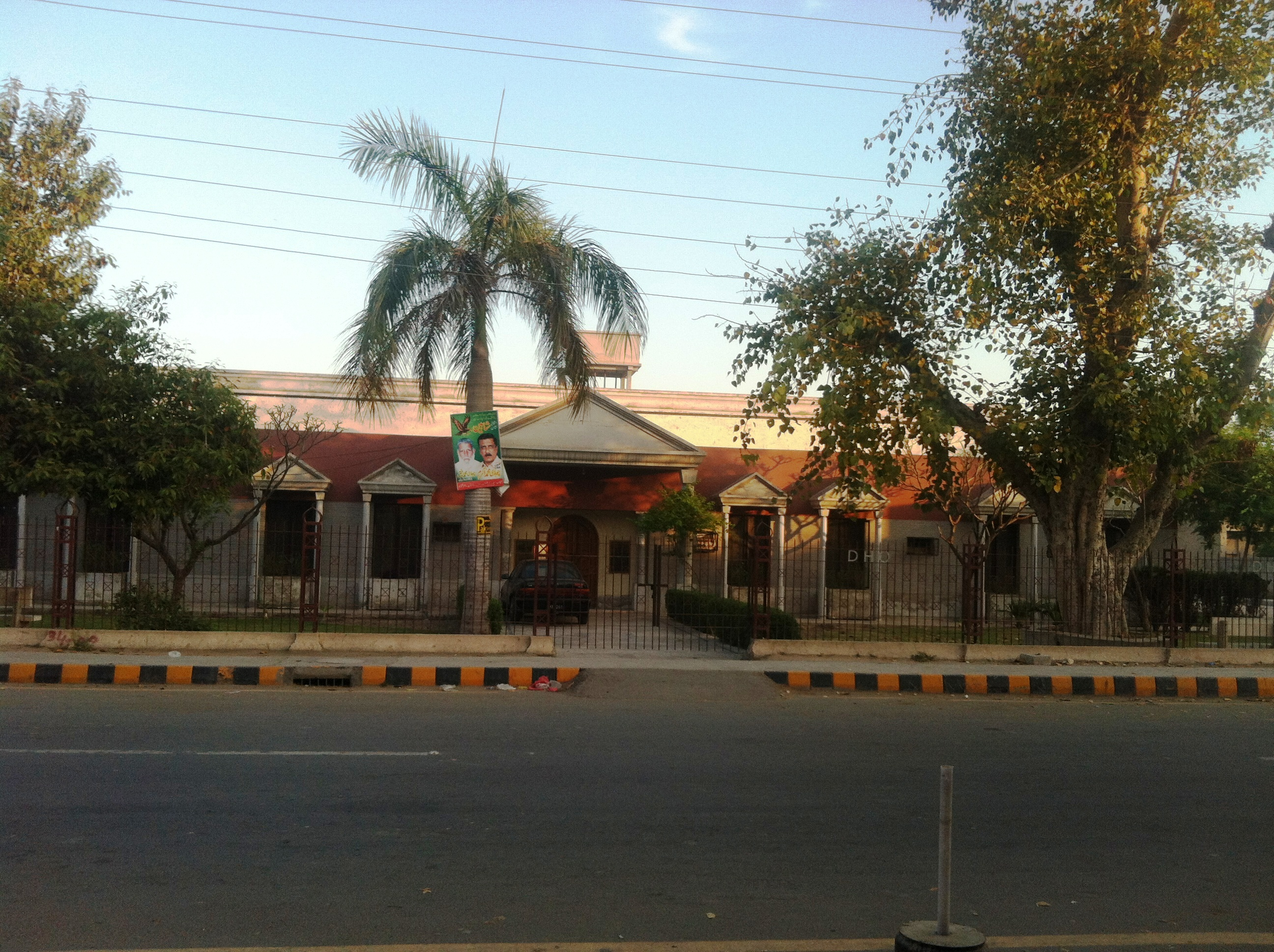 District Library, Okara